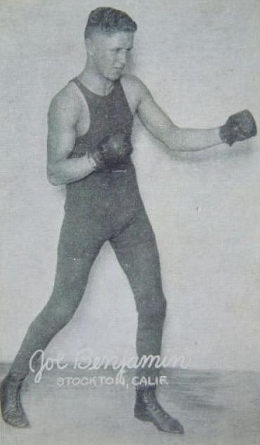 This is a 1920 photo of Lightweight Championship Boxing contender Joe Benjamin taken in 1920.